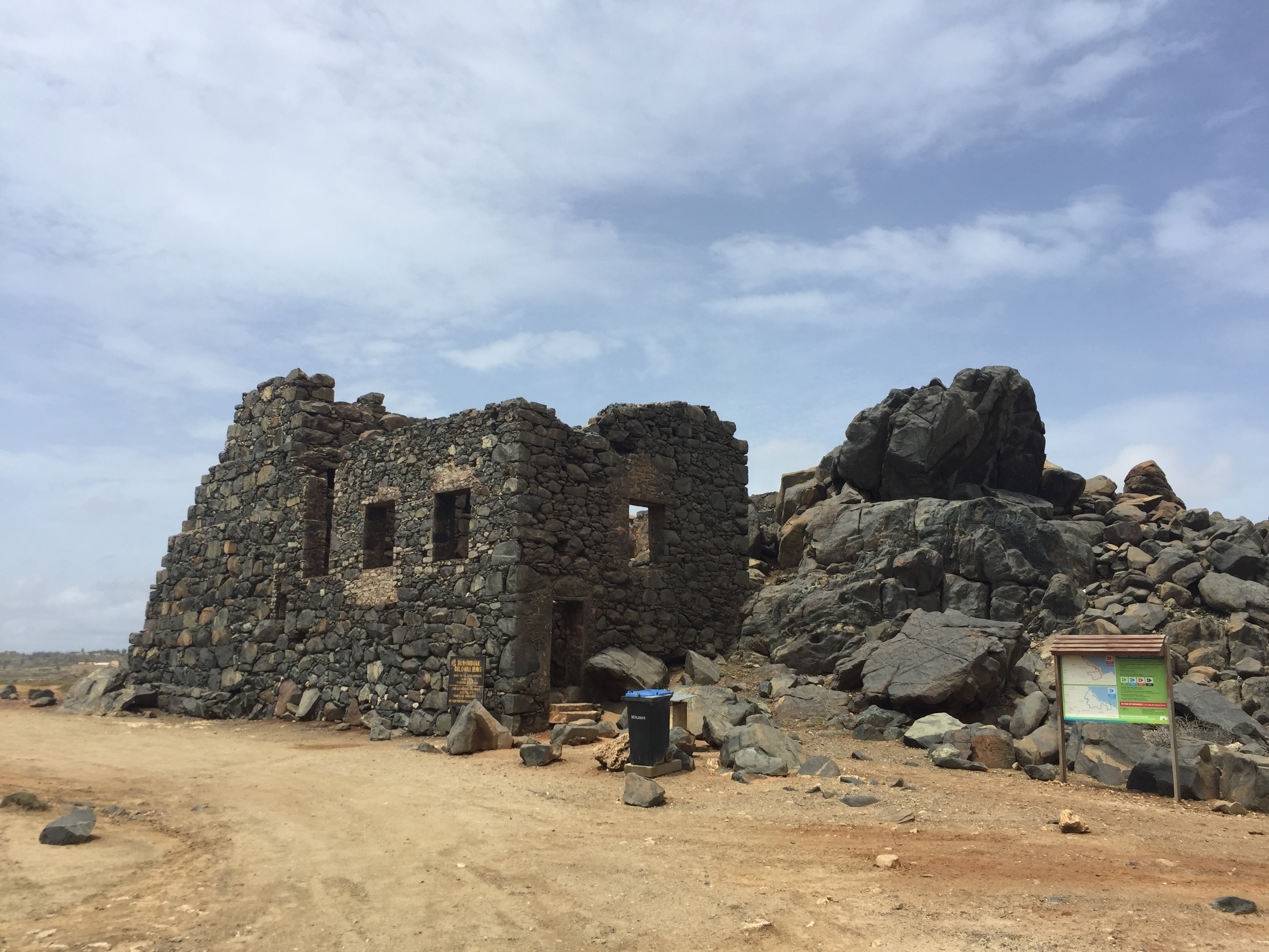 Bushiribana gold mine ruins, Aruba